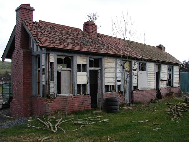 Moniaive Railway Station Sad remains of the little timber station building (Arts & Crafts architecture) at the terminal of the Cairn Valley Railway from Dumfries to Moniaive. The line was opened 1905 and closed in 1943 for passengers, 1949 for freight. Apart from track bed, there are no other significant remains of the railway.